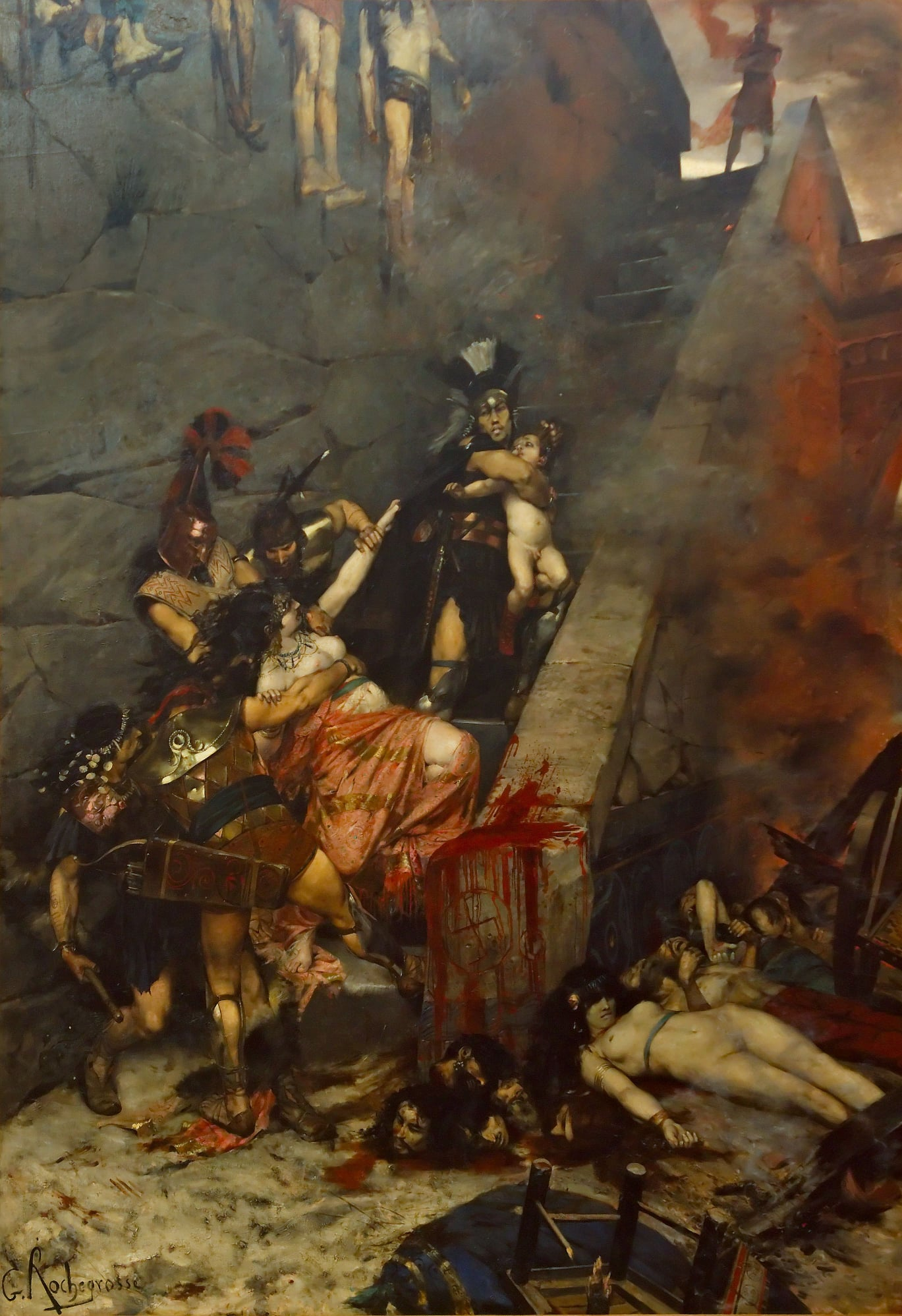 "Andromaque", 1883 painting that can be seen in Rouen's fine art museum in France.